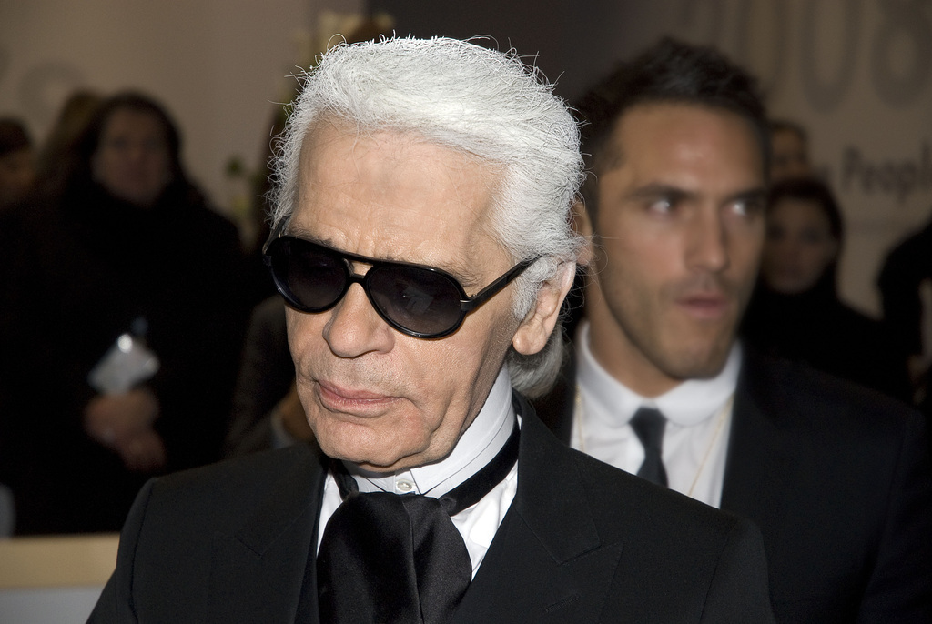 Karl Lagerfeld, German-born fashion designer and artist Volkswagen People’s Night 2008